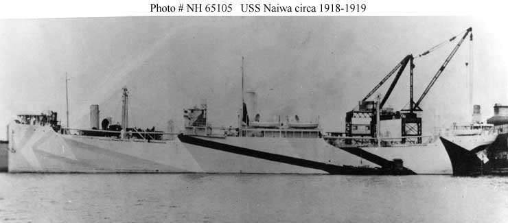 USS Naiwa (ID # 3512) Probably photographed shortly after completing construction in late 1918. She was in commission from November 1918 to May 1919.